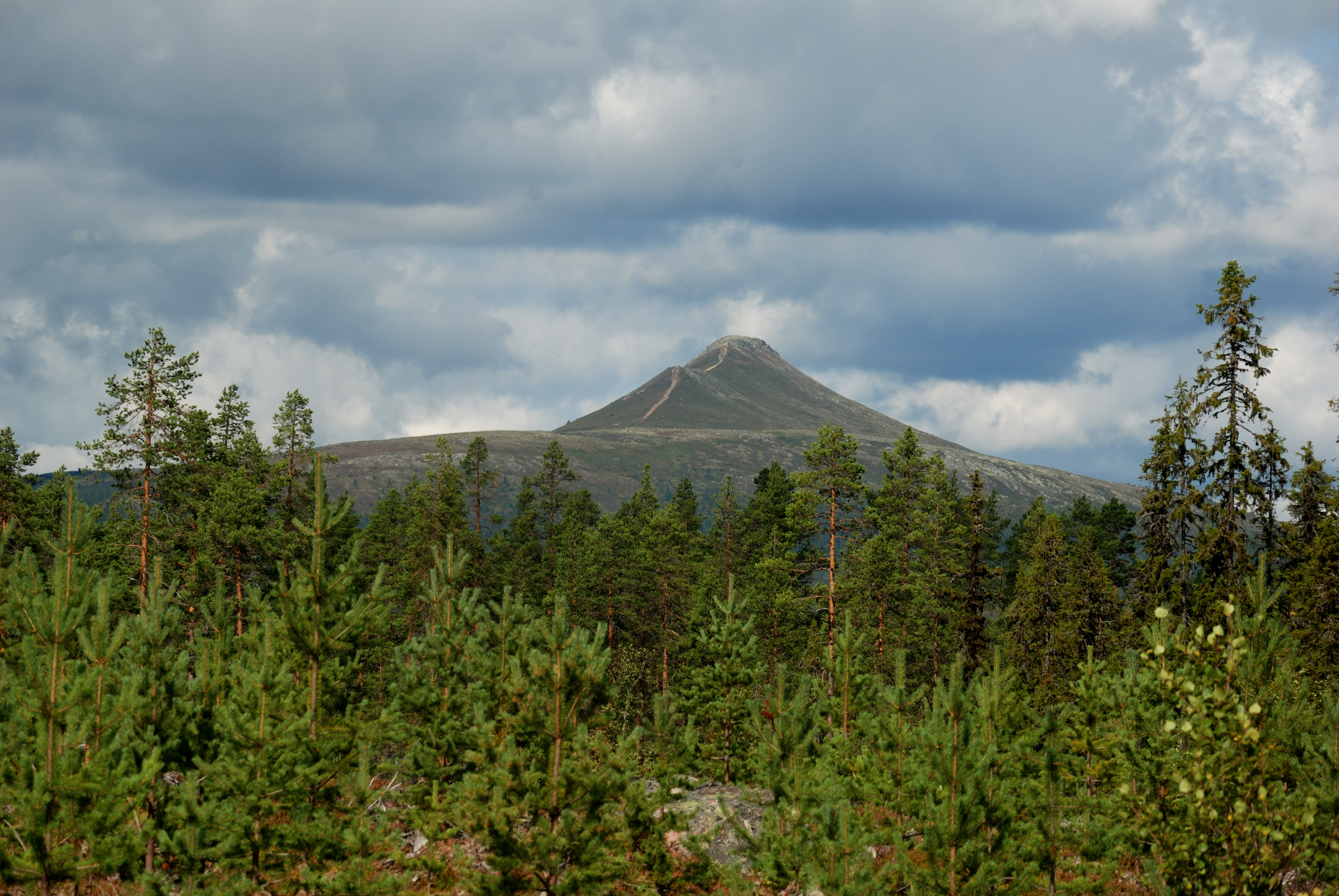 Mount Städjan seen from Swedish county road 311.